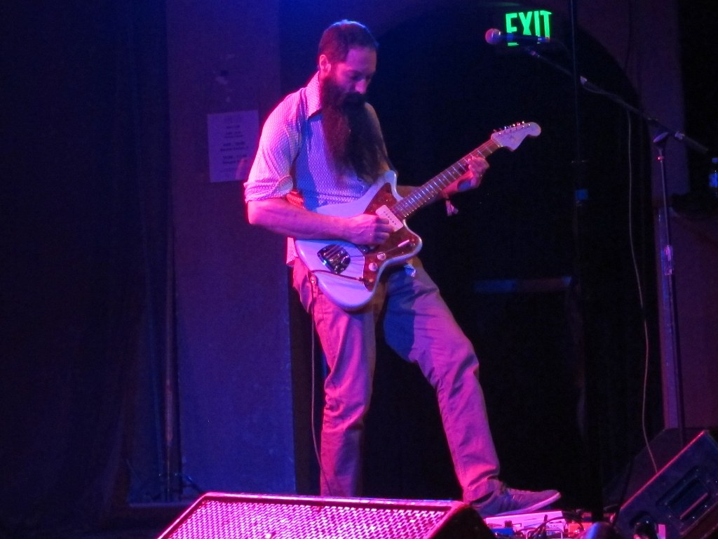 068 Dengue Fever Dengue Fever at the Bluebird Theater in Denver, Colorado. Photo by Jester Jay Goldman.